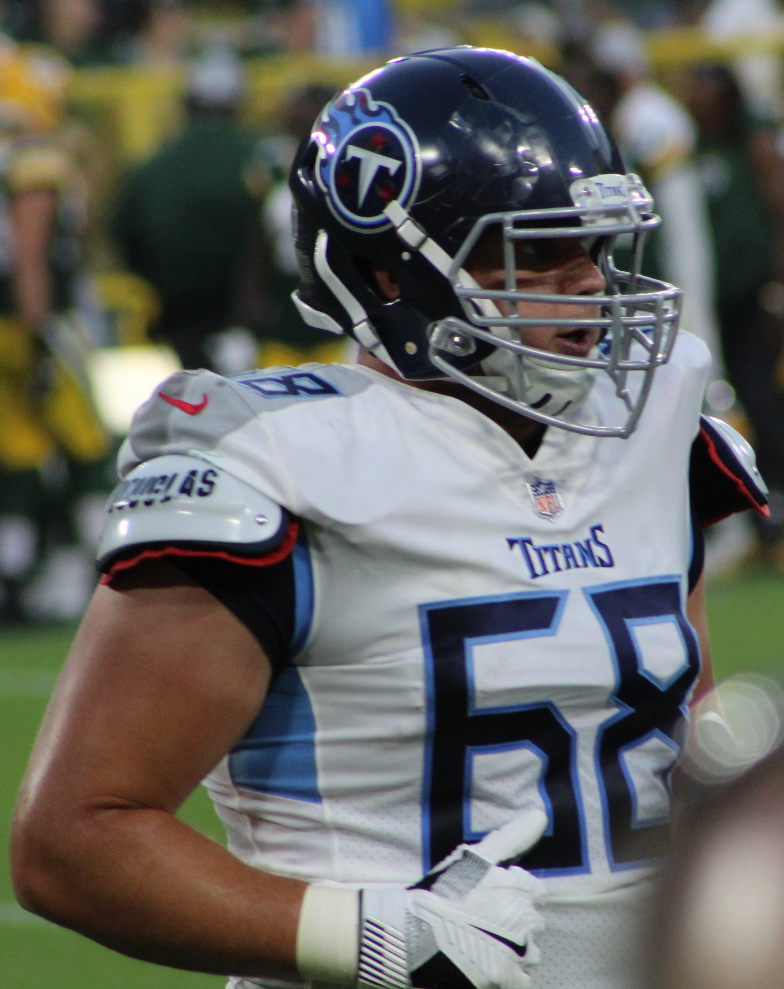 Cody Wichmann, Tennessee Titans at Green Bay Packers (Preseason), August 9, 2018